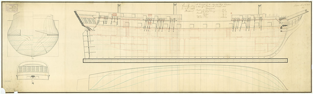 Volontaire (captured 1806) Scale: 1:48. Plan showing the body plan, stern board outline, sheer lines with inboard detail, and longitudinal half-breadth for Volontaire (captured 1806), a captured French Frigate, as taken off at Portsmouth in October 1806. The plan illustrates the ship prior to being fitted as a 38-gun Fifth Rate Frigate. Signed by Nicholas Diddams [Master Shipwright, Portsmouth Dockyard, 1803-1823]. VOLONTAIRE FL.1806